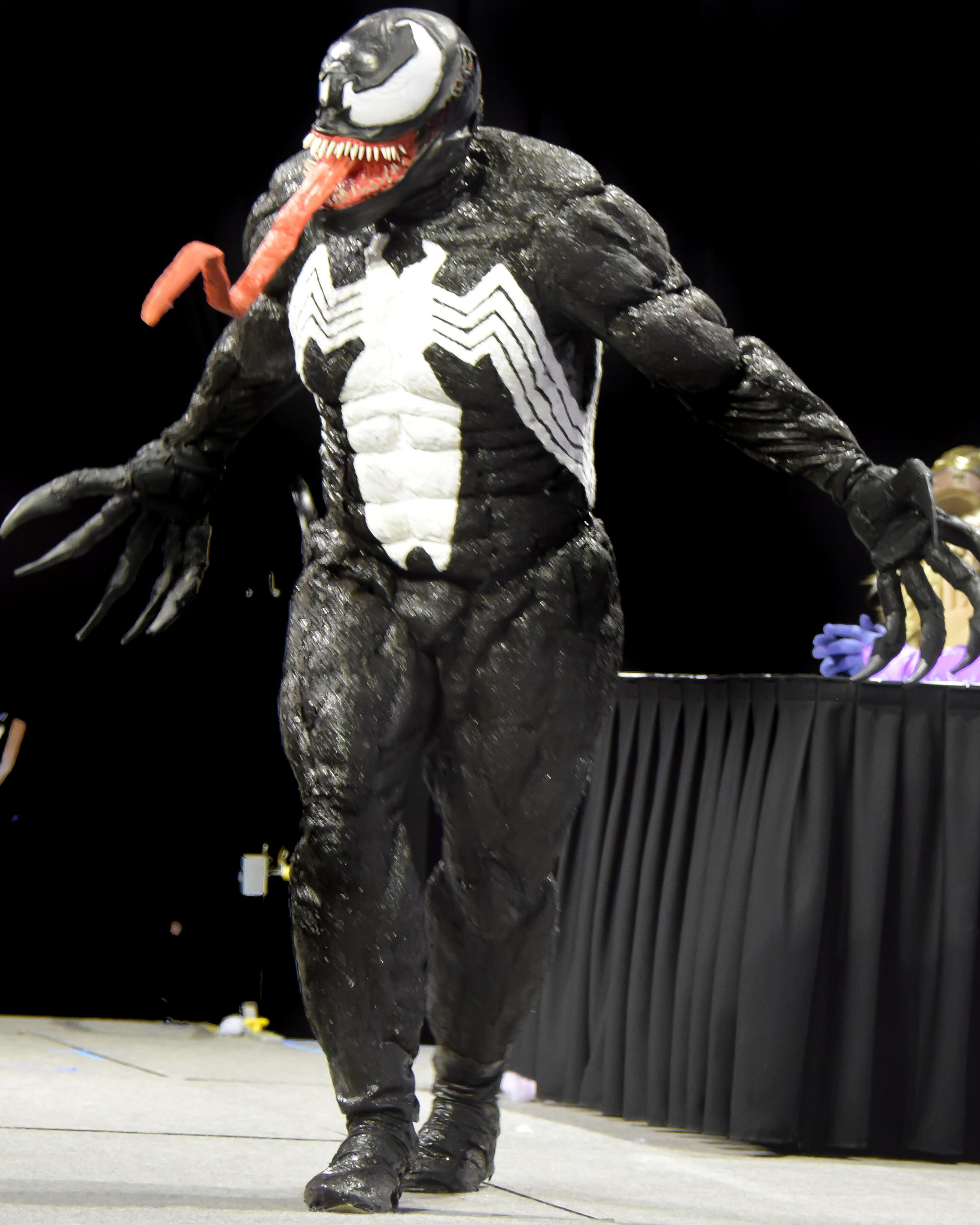 Venom Marvel